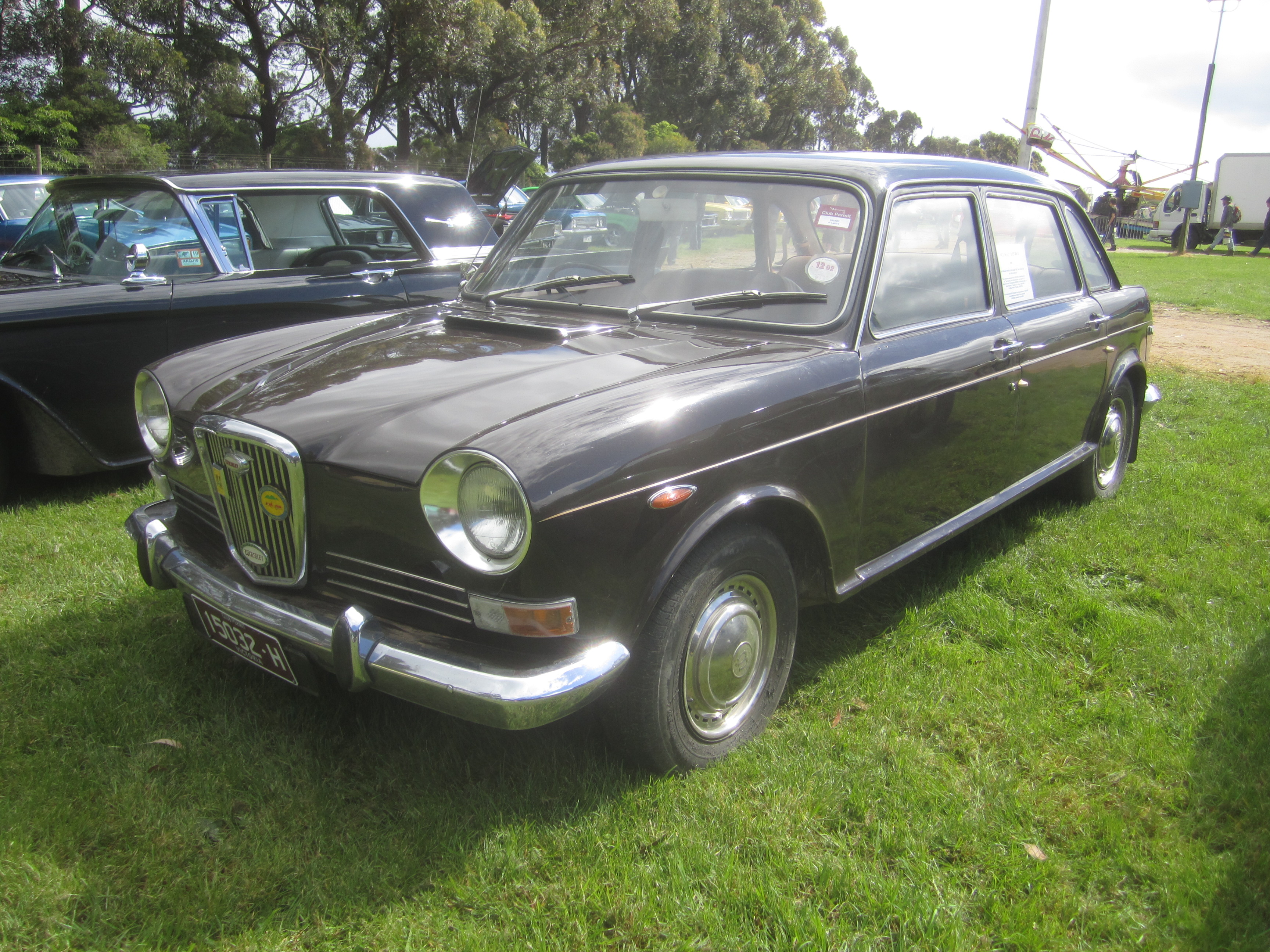 Similar styling to the BMC Mini and 1100 with front wheel drive and east/west engine, it was nick named 'the Land Crab' Badge engineered versions were the Austin and Morris 1800. The Mk I Wolseley was built from 1967, Mk II from 1968 got a revised grille and also the horizontal tail lights replaced by vertical ones and finally the Mk III from 1972-75, another new grille and 6 cylinder versions were available, the Austin or Morris 2200 and the Wolseley Six. Engines; 1800cc 4 cyl